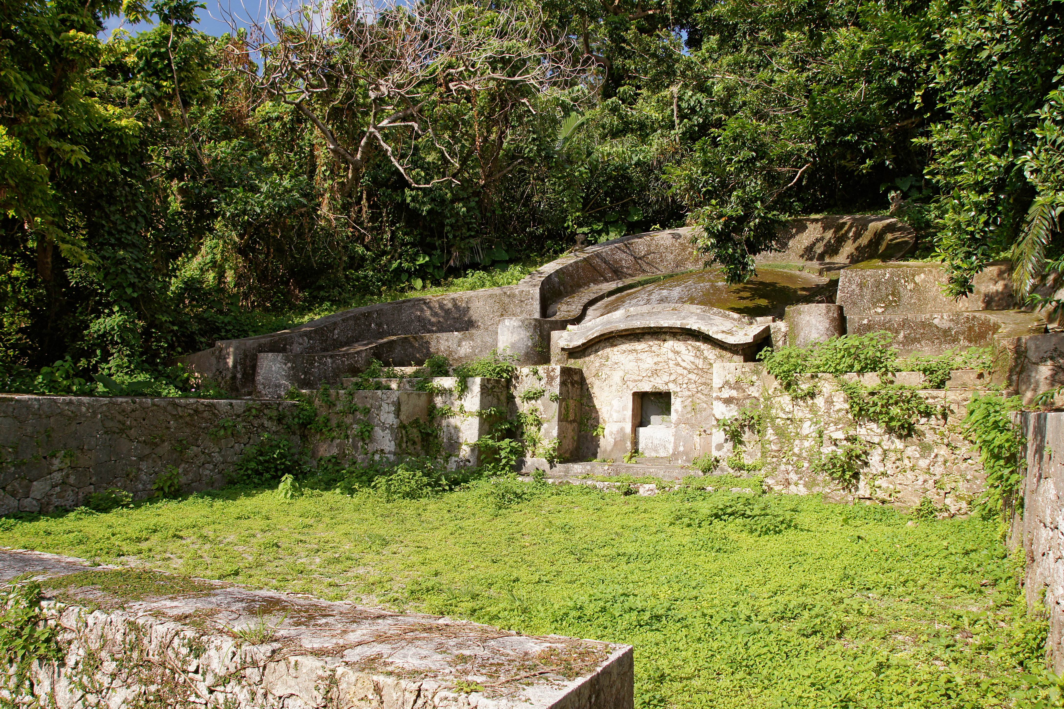 Sueyoshi Park, Naha, Okinawa prefecture, Japan